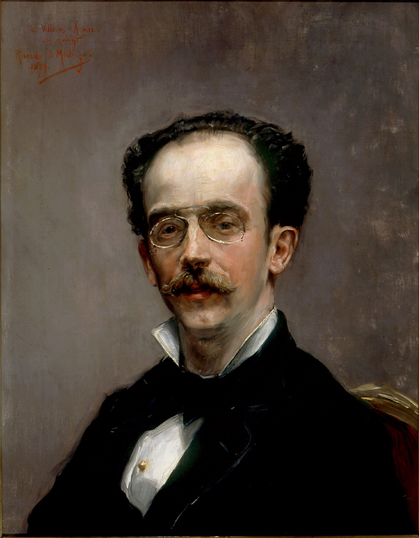 Portrait of Fernando de los Villares Amor (fl. 1879-1924) by Ricardo de Madrazo, 1852-1917, now in Prado Museum (part of the collection of Fernando de los Villares Amor)